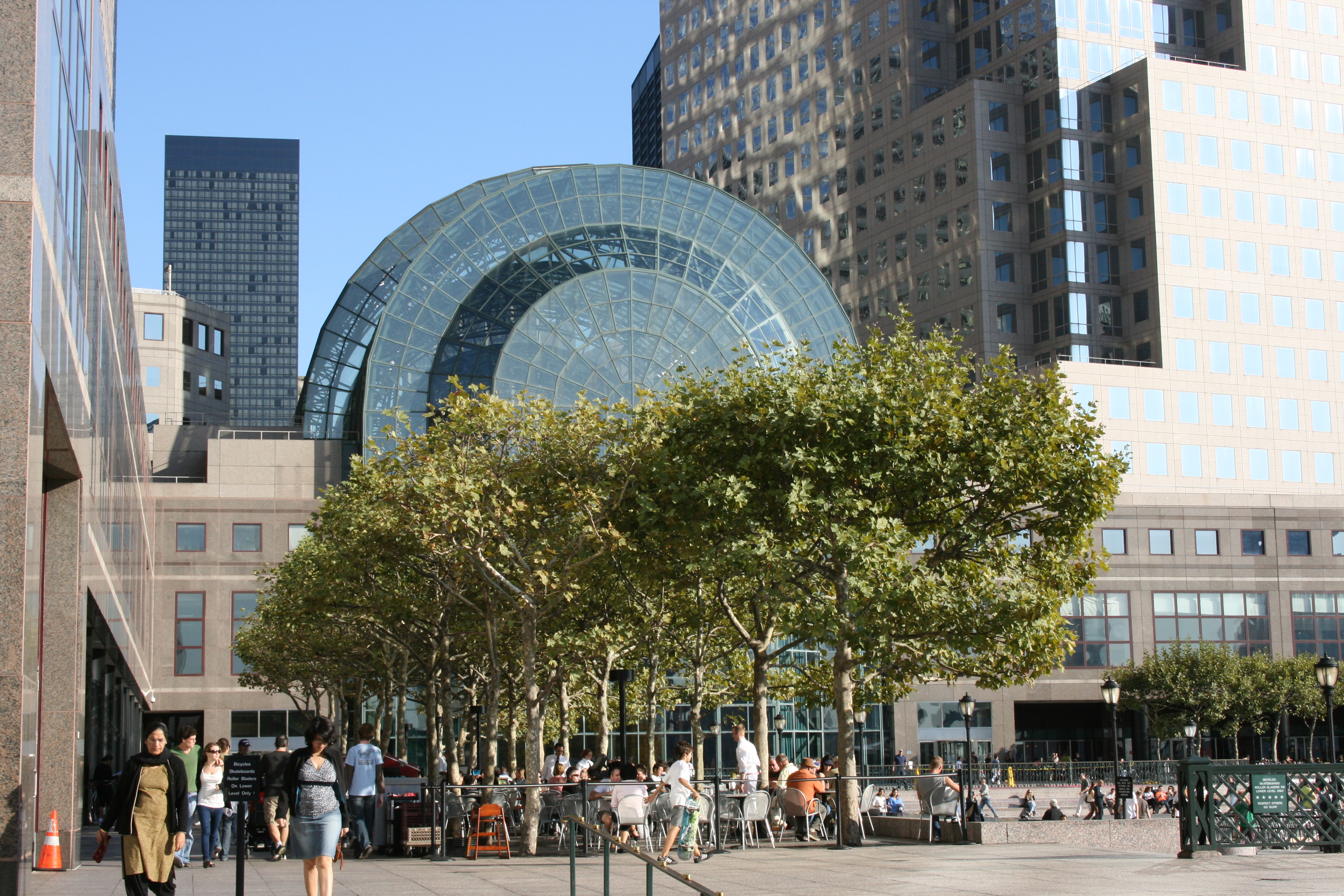 Winter Garden Atrium, October 2008. Original description by photographer: "From The Hudson, VIew of the World Finance Center".